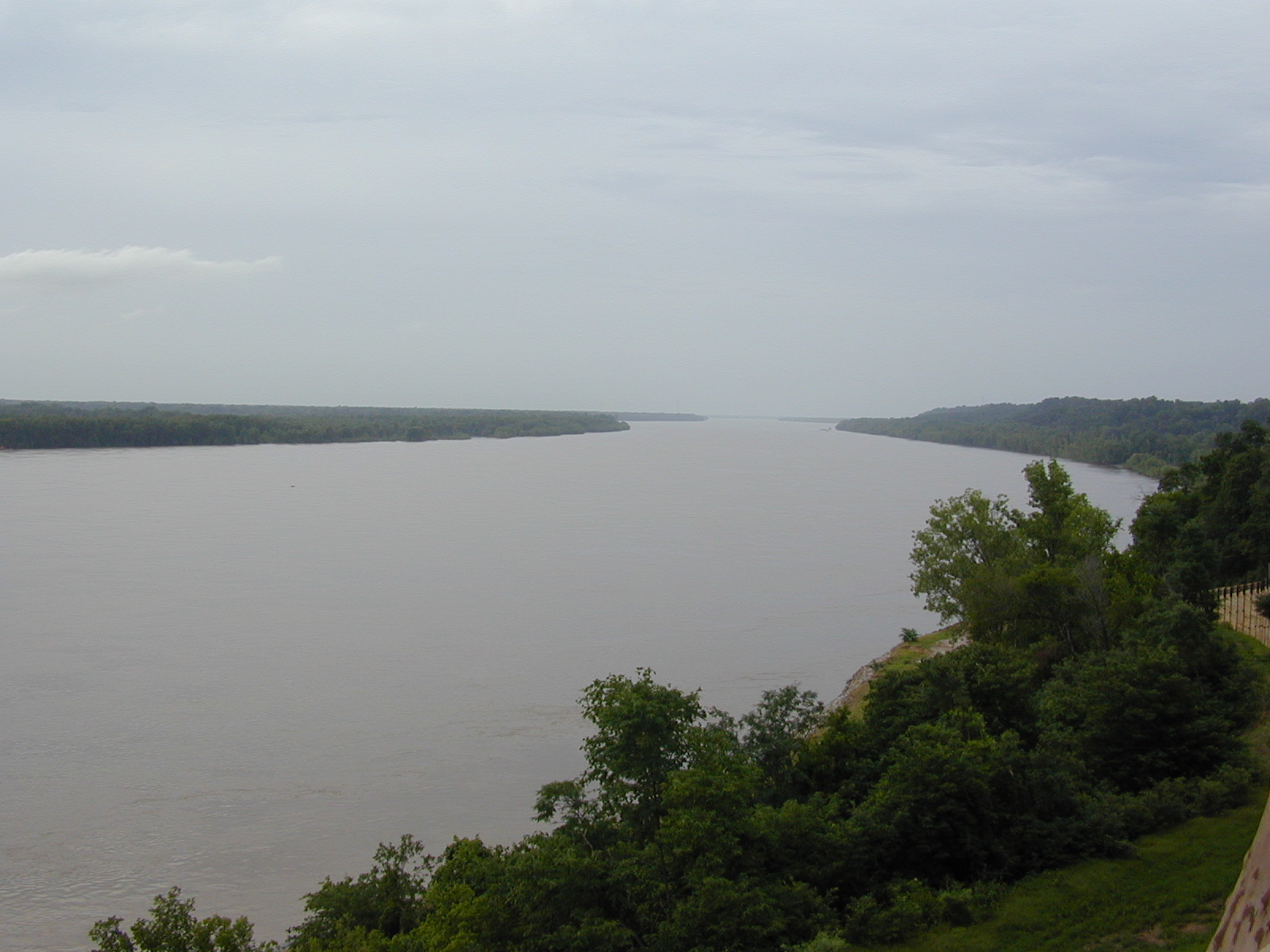 Mississippi River, seen from Natchez, Miss. Photo by Jan Kronsell, 2002.